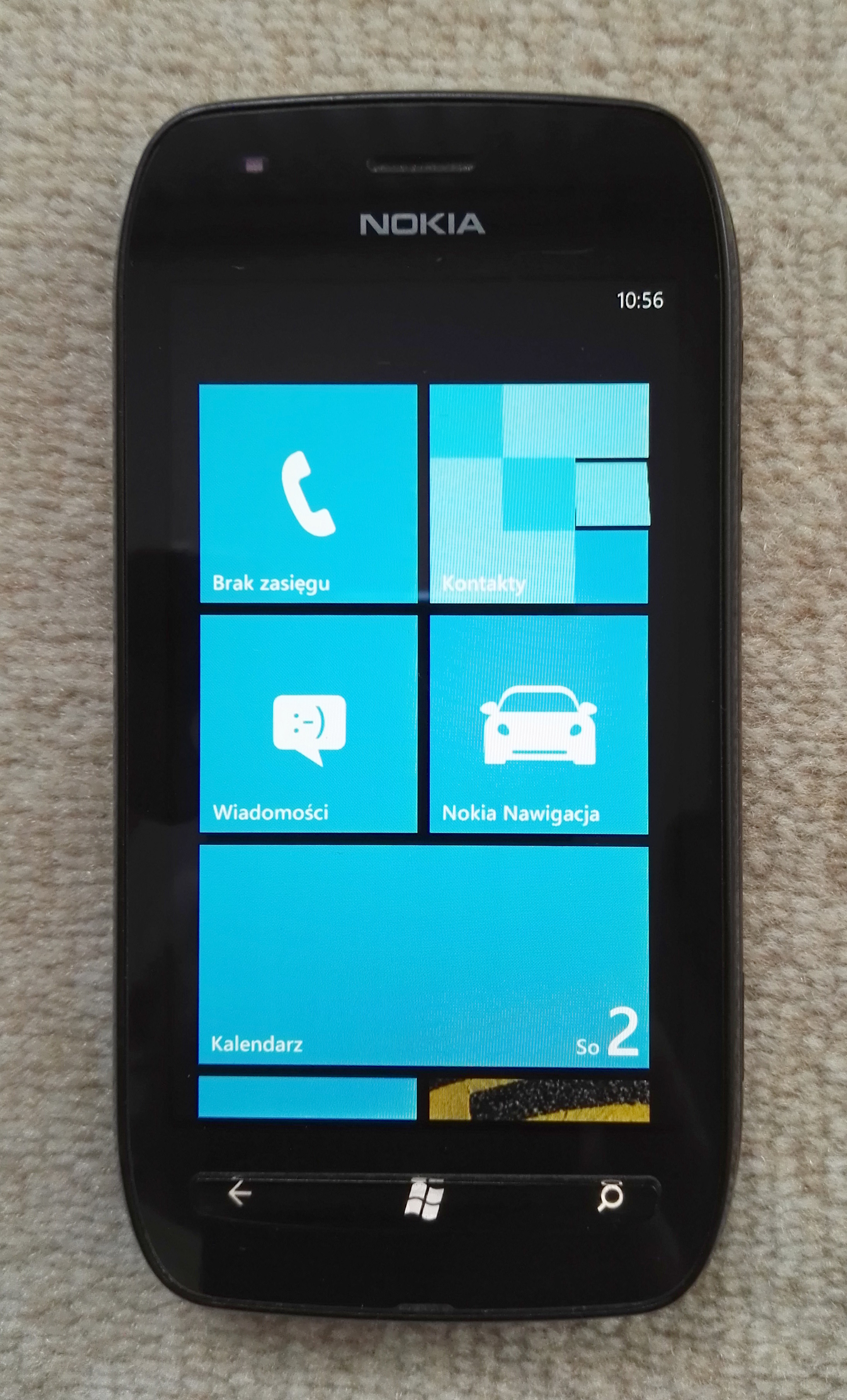 Front view of Nokia Lumia 710 powered by Windows Phone 7.8